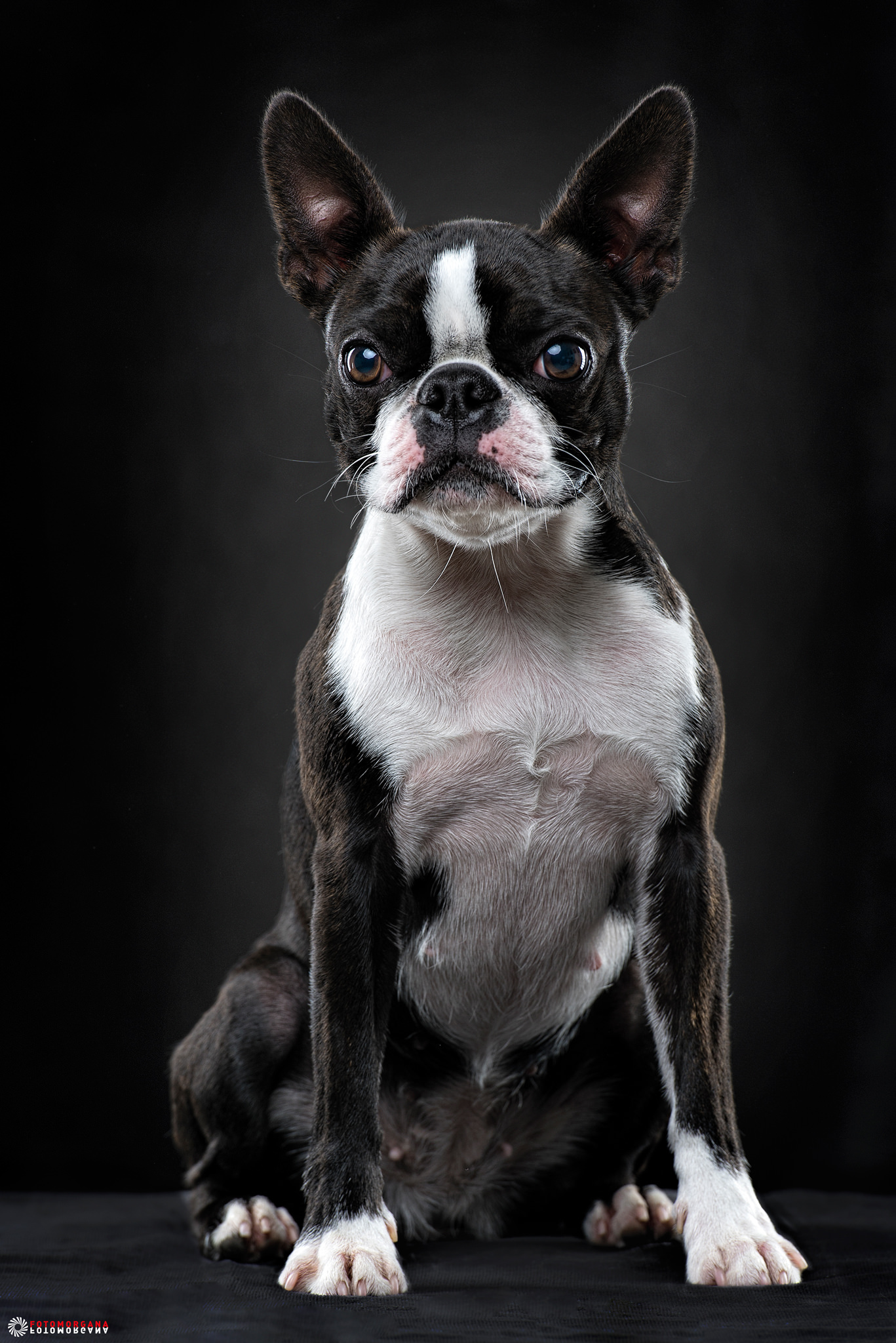 Mia Bostonski terirer